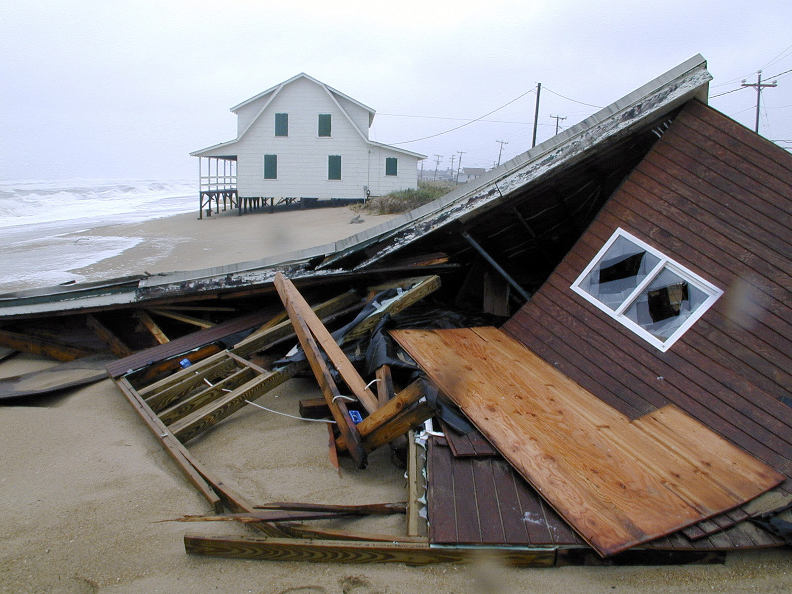 KITTY HAWK, NC, 9/1/1999 -- Hurricane Dennis has caused severe beach erosion along the Outer Banks of North Carolina that continues as long as it remains offshore. Here, the pounding surf and surge undermined and claimed this beach home on Virginia Dare Trail, while leaving others unscathed. Photo by DAVE GATLEY/FEMA